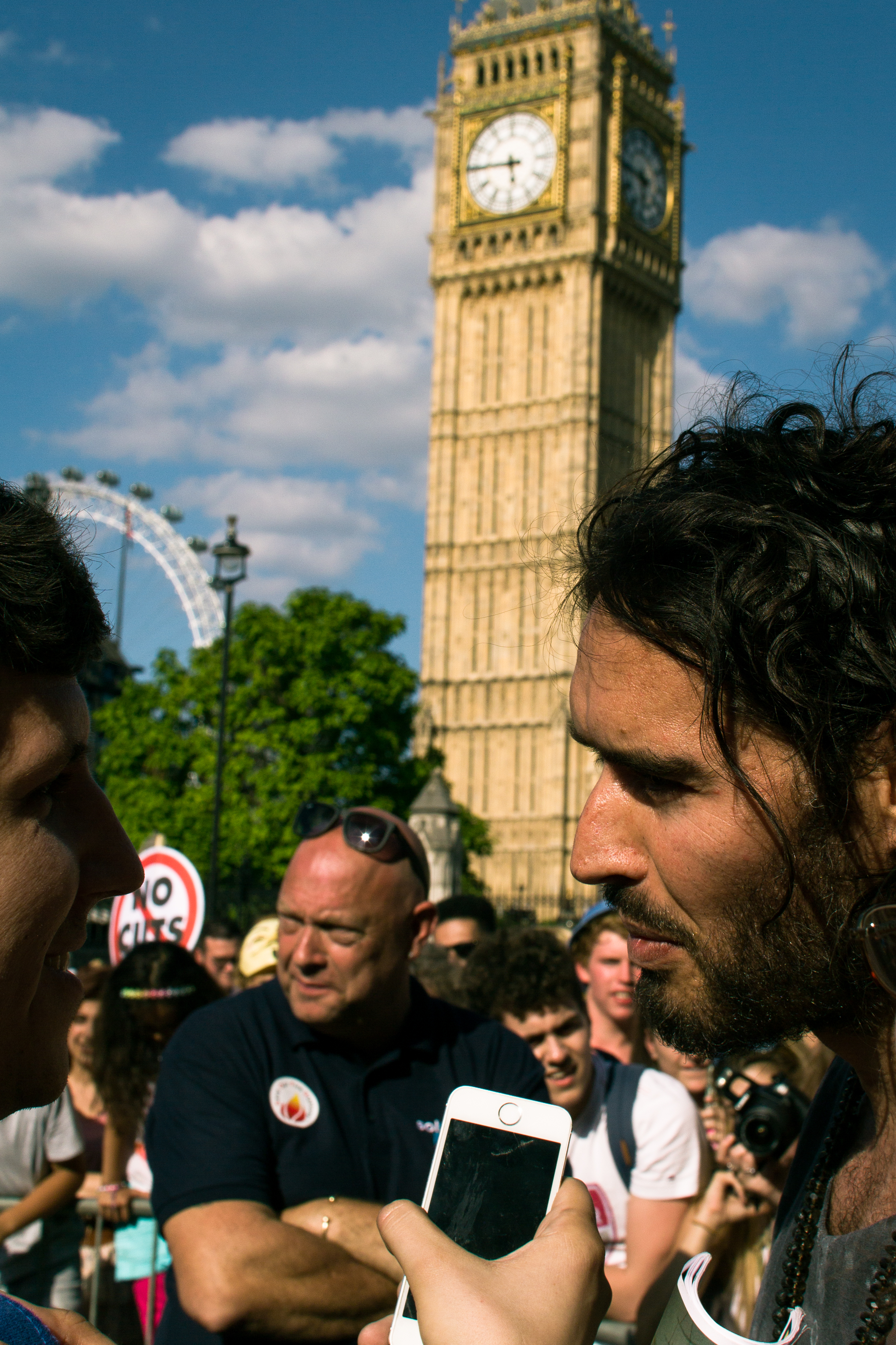 Russell Brand being interviewed at the Peoples’ Assembly demonstration against austerity rally in front of Big Ben in London. Free to use under Creative Commons Licence. If used for publication i'd be grateful if you could let me know.